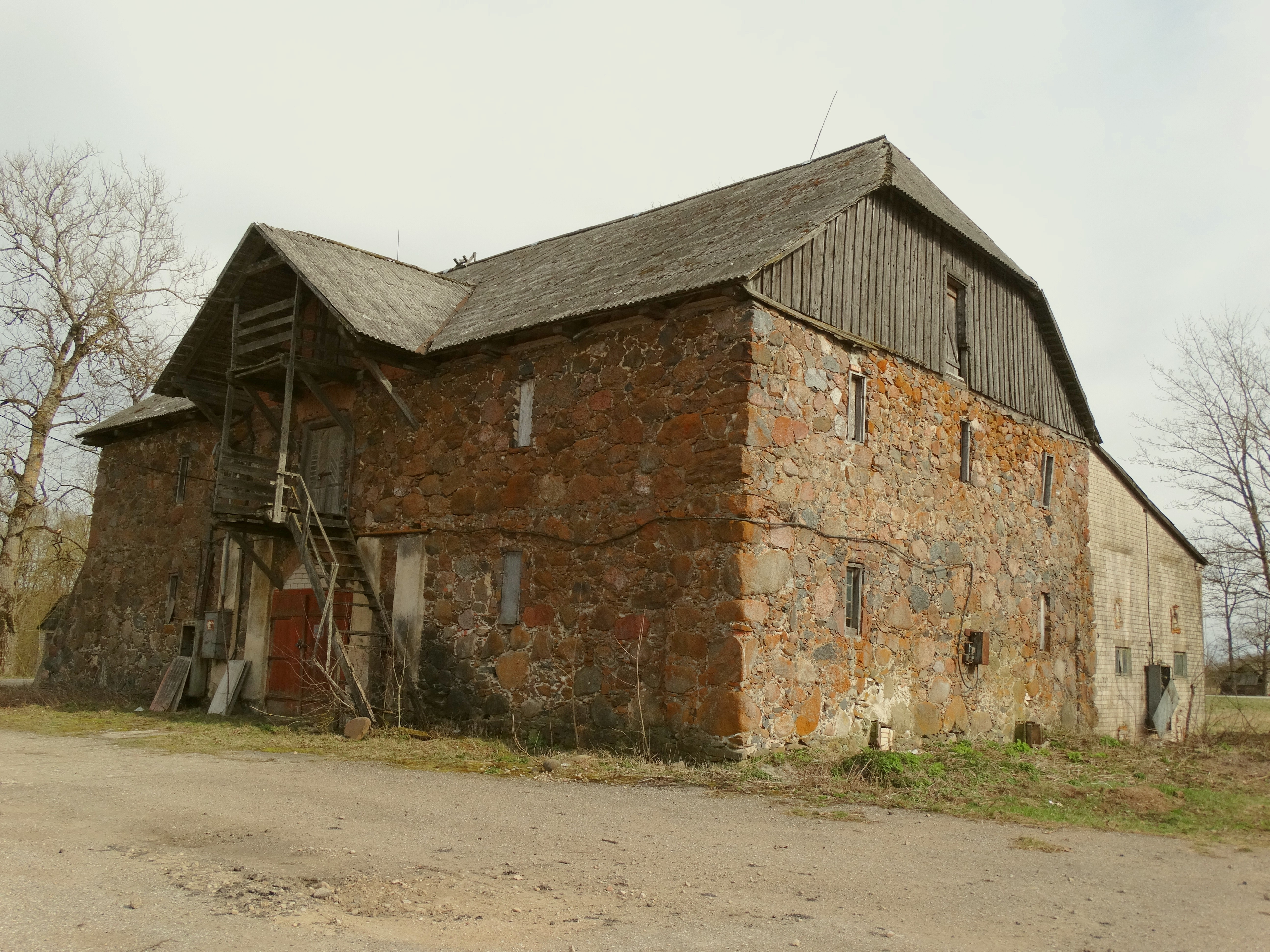 Former manor buildings, Pašušvys, Radviliškis District, Lithuania